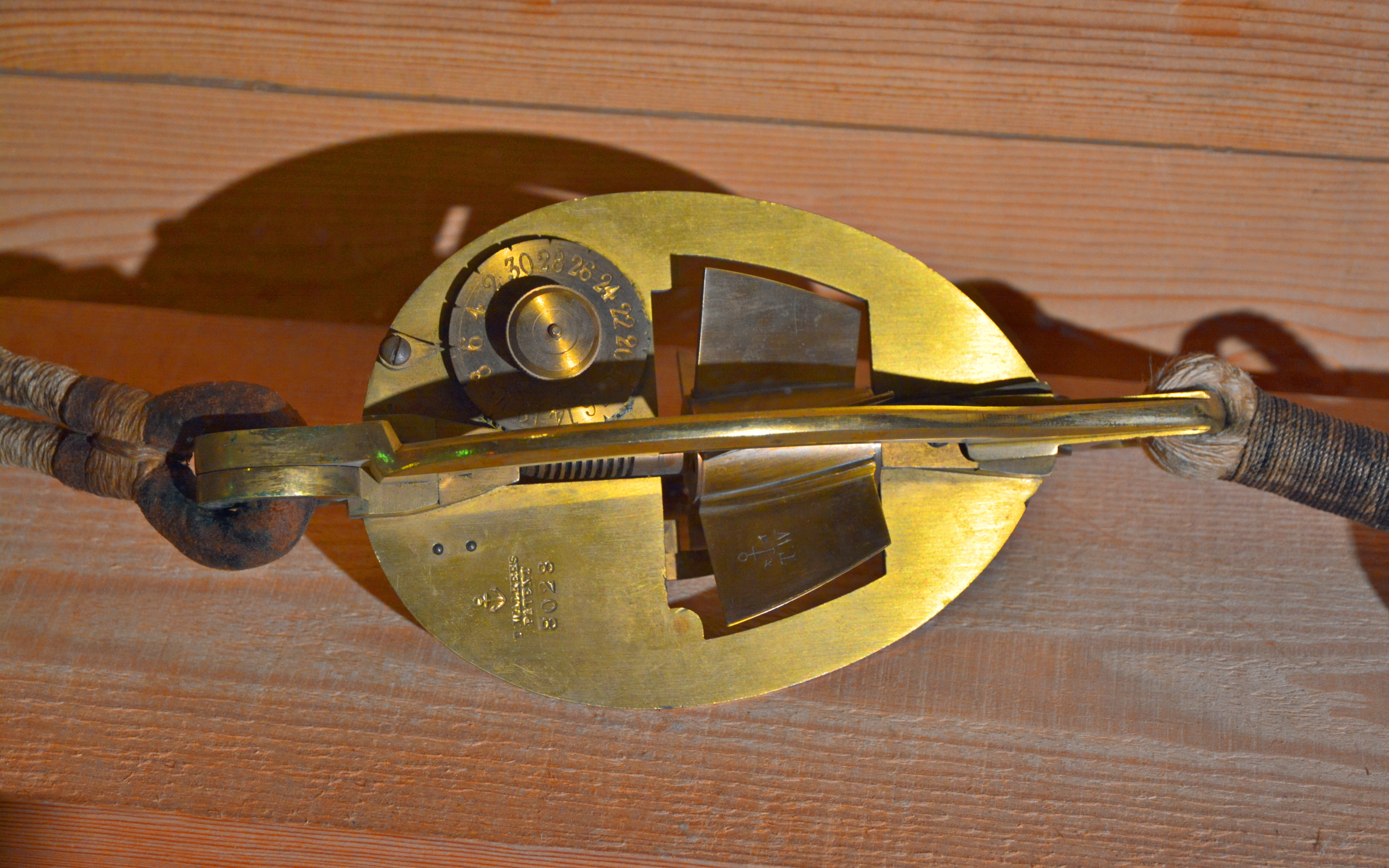 A taffrail log exposed at Forum Marinum, Turku, Finland.